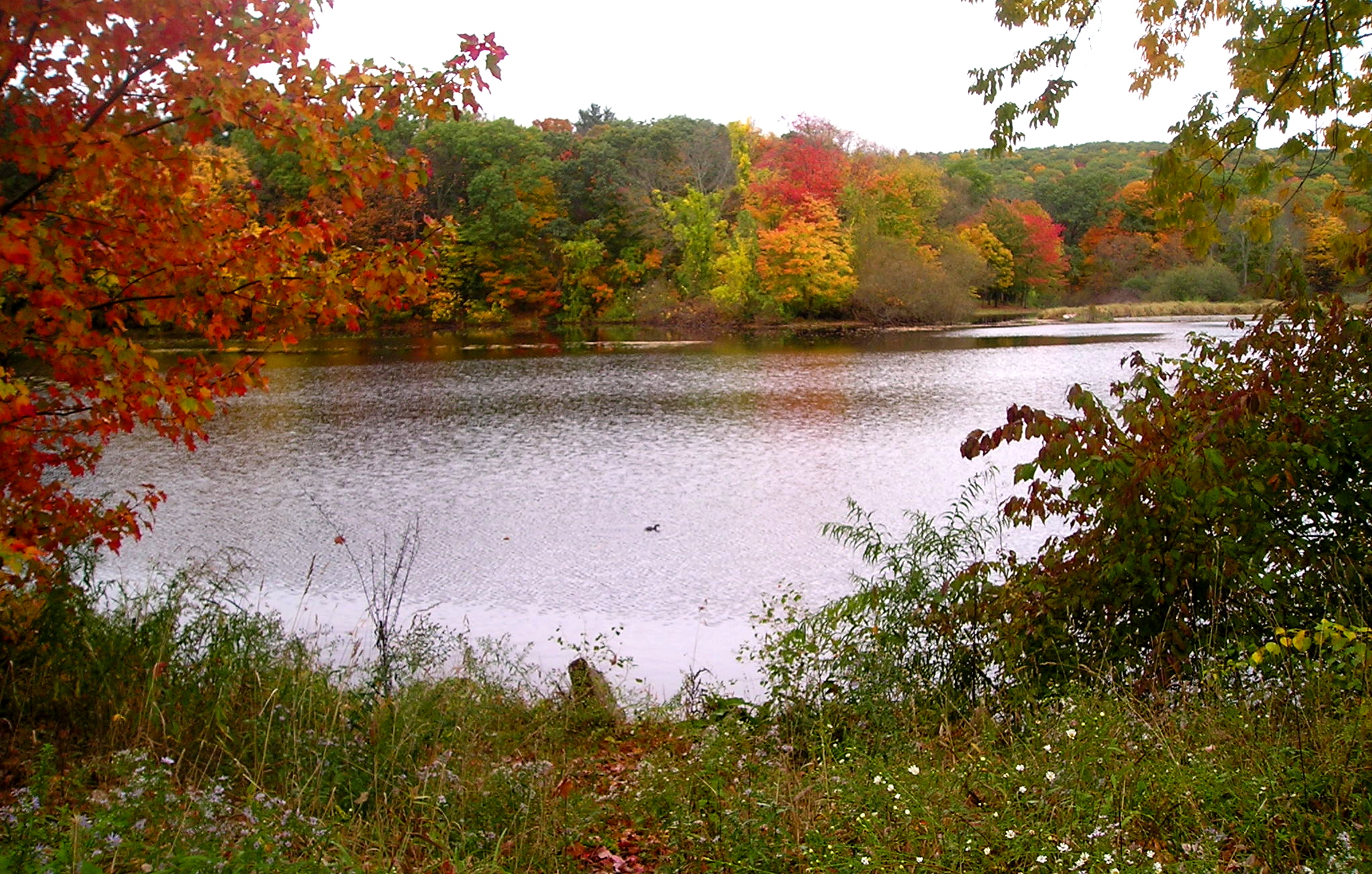 A pond on New Road in Hamden, CT, just west of the Quinnipiac University campus.